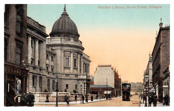 The Mitchell Library, North Street, Glasgow in postcard around 1912